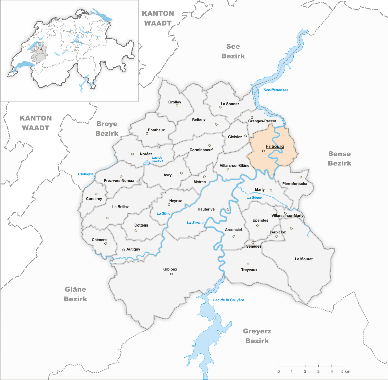 Municipality Fribourg